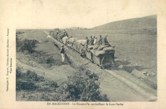 En Macédoine - Le Decauville ravitaillant le front Serbe